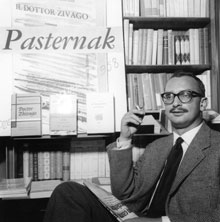 Feltrinelli presents Pasternak